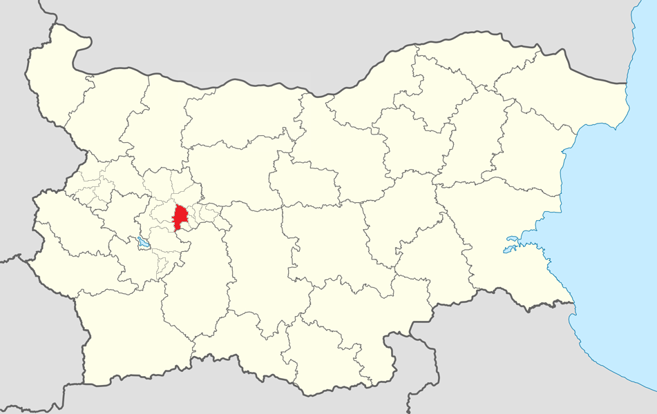 Location map of Mirkovo Municipality within Bulgaria and Sofia province